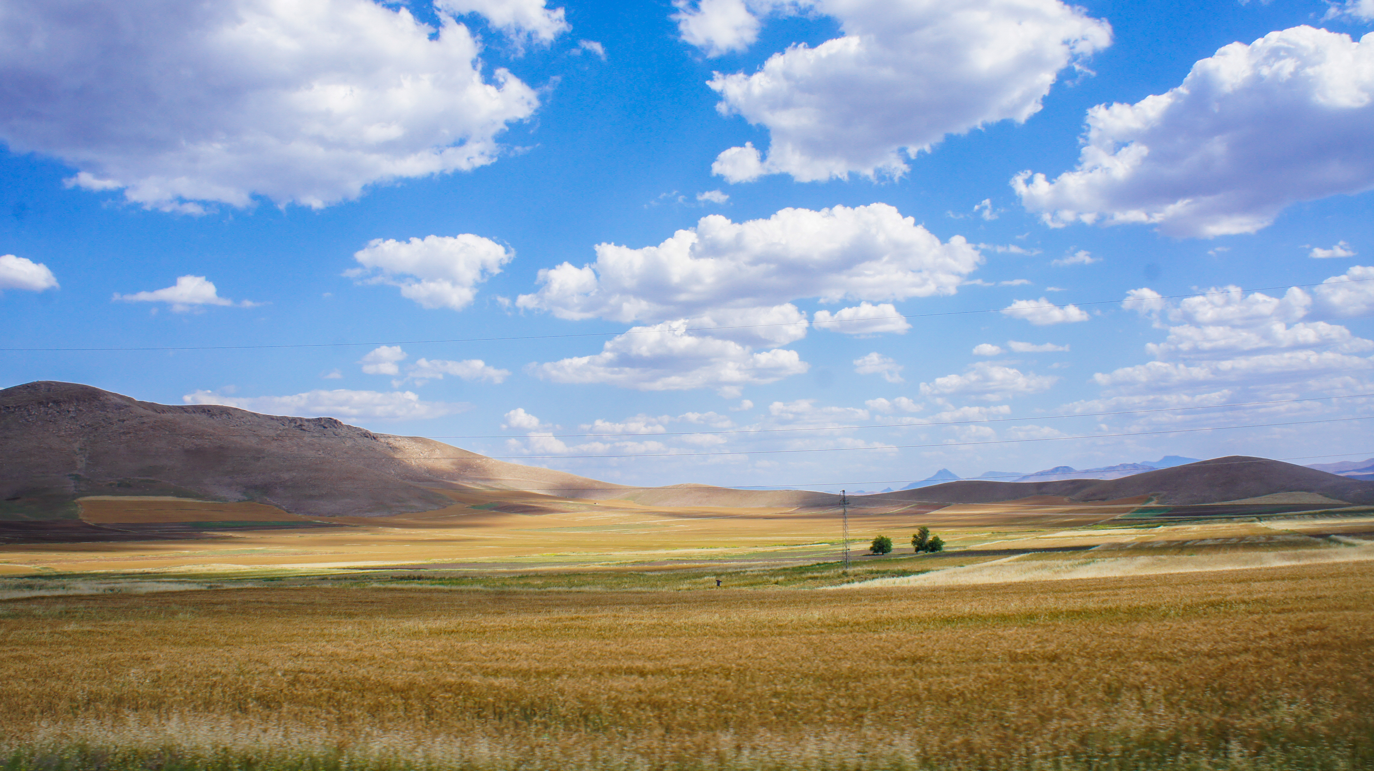 Mountains of Iraq